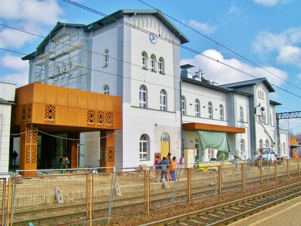 The train station building in Kutno under the general refurbishment